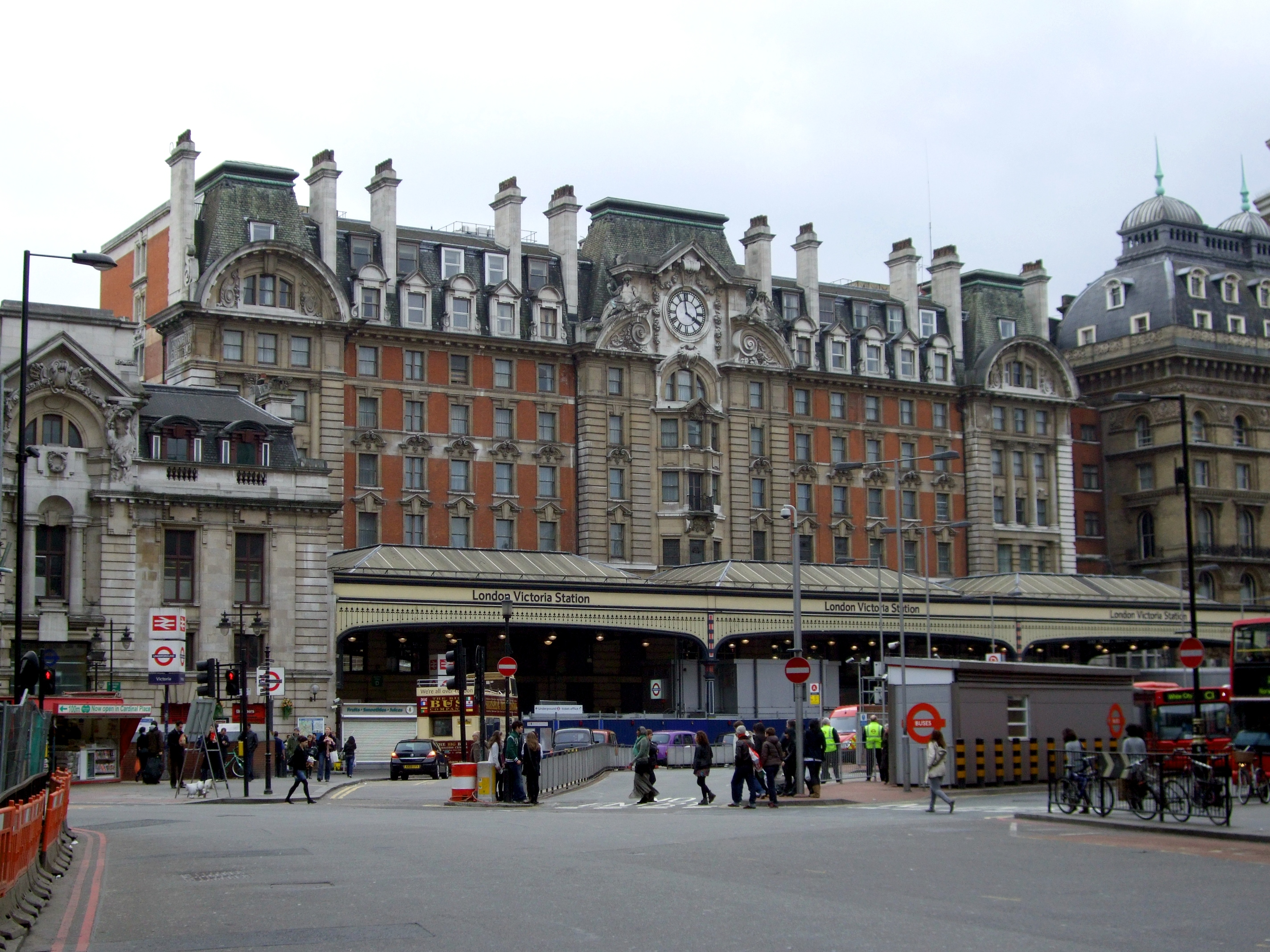 London Victoria Station - The main station building for this terminus, with trains servicing the south and south-eastern destinations, as well as Gatwick. In front is the bus station.